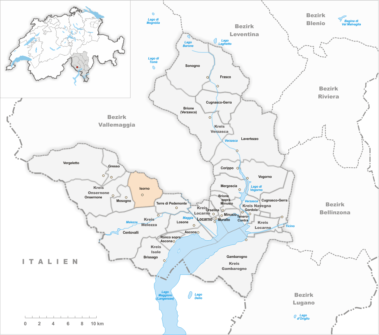 Municipality Isorno